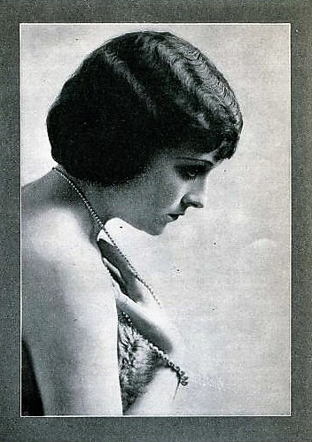 Dorothy Revier (Dorothy Valerga)